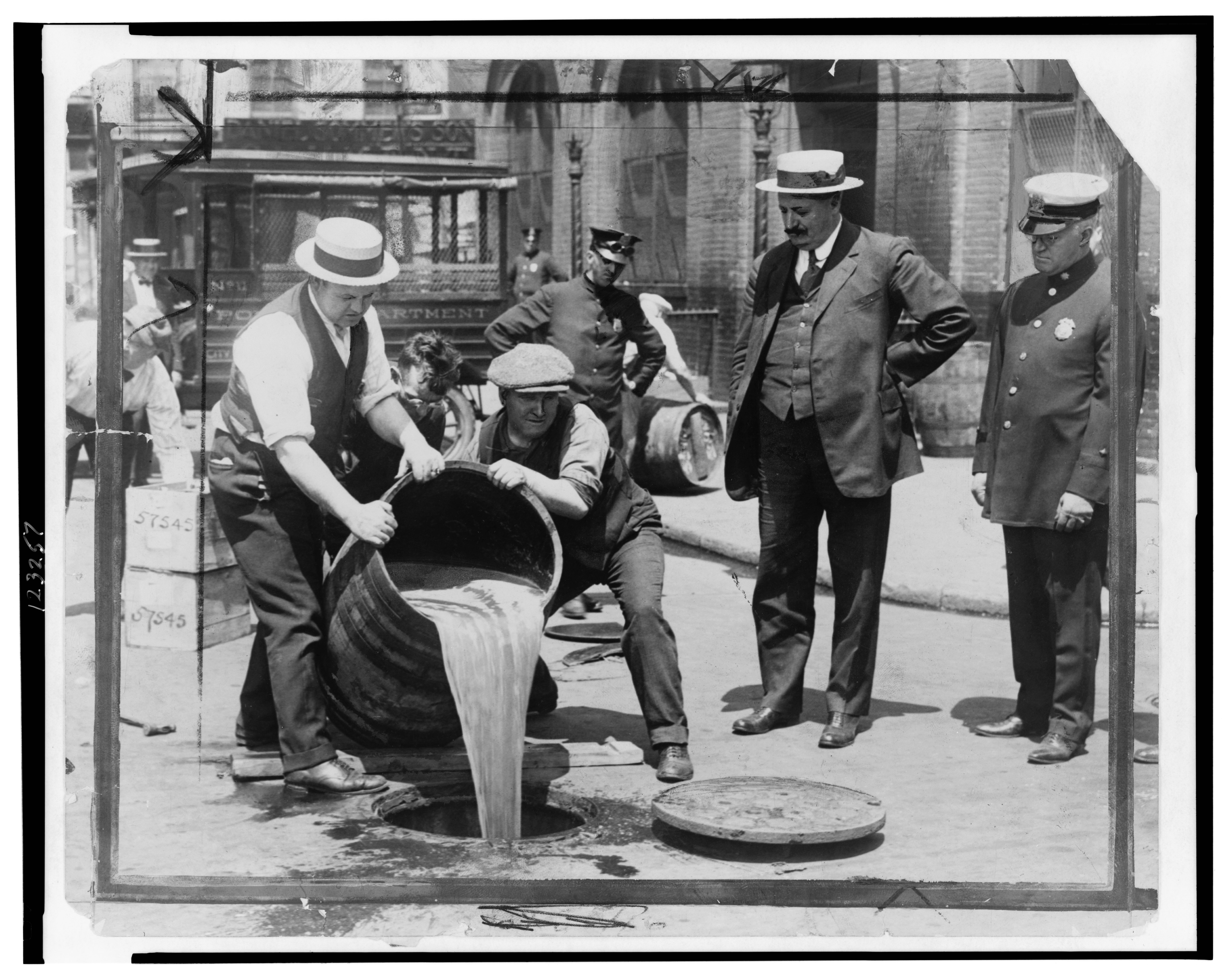 Title: New York City Deputy Police Commissioner John A. Leach, right, watching agents pour liquor into sewer following a raid during the height of prohibition Abstract/medium: 1 photographic print.